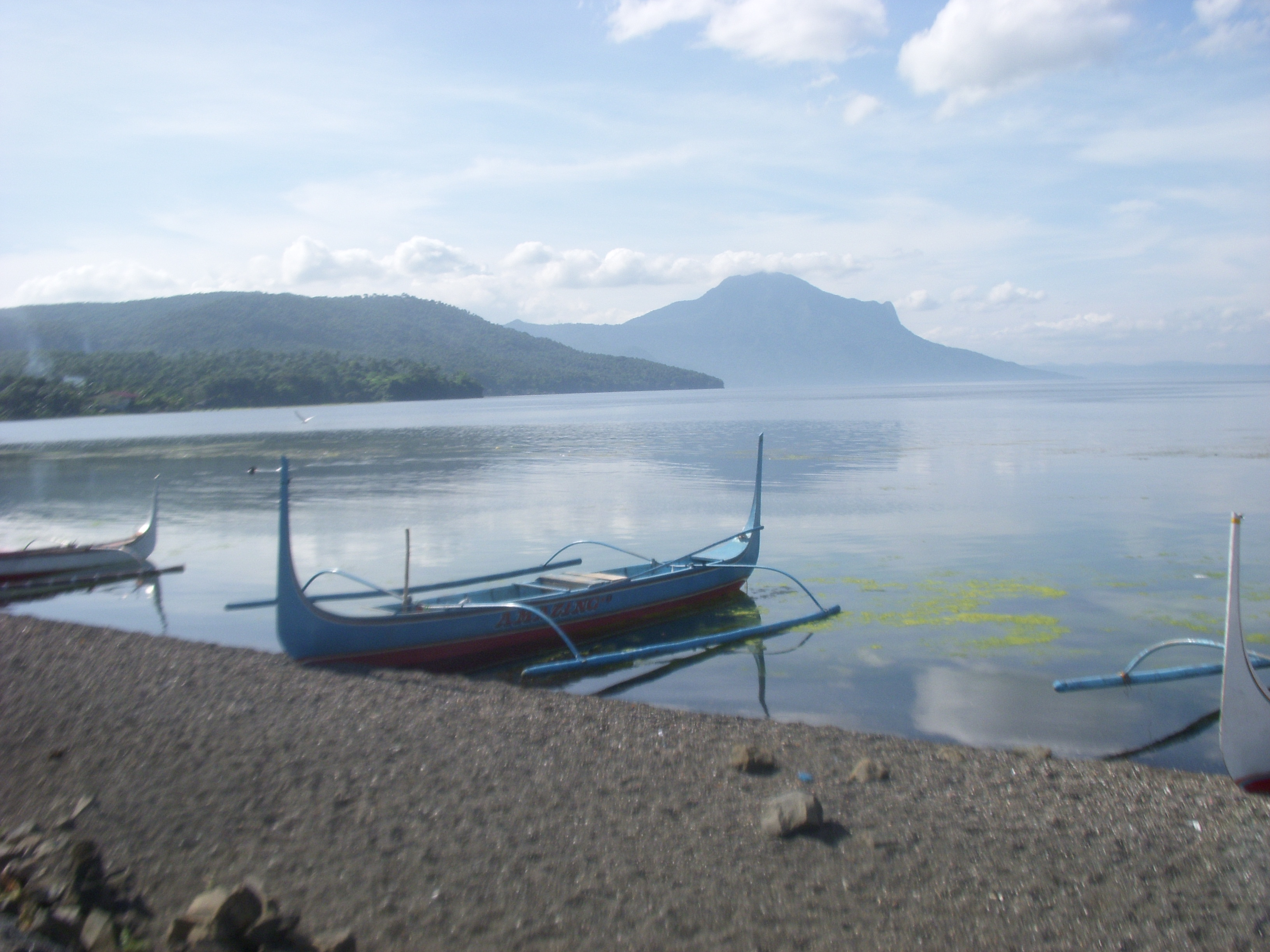 Fishing boats at the shore of Taal Lake in Balete, Batangas